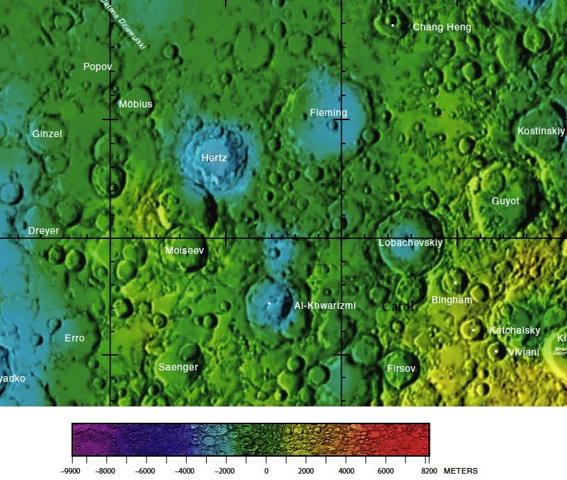 Part of the USGS Far side lunar chart